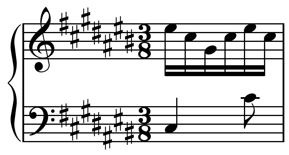 Bach's (1685–1750) WTC I, Prelude in C♯ Major, open space chord as an expression of the overtone series.